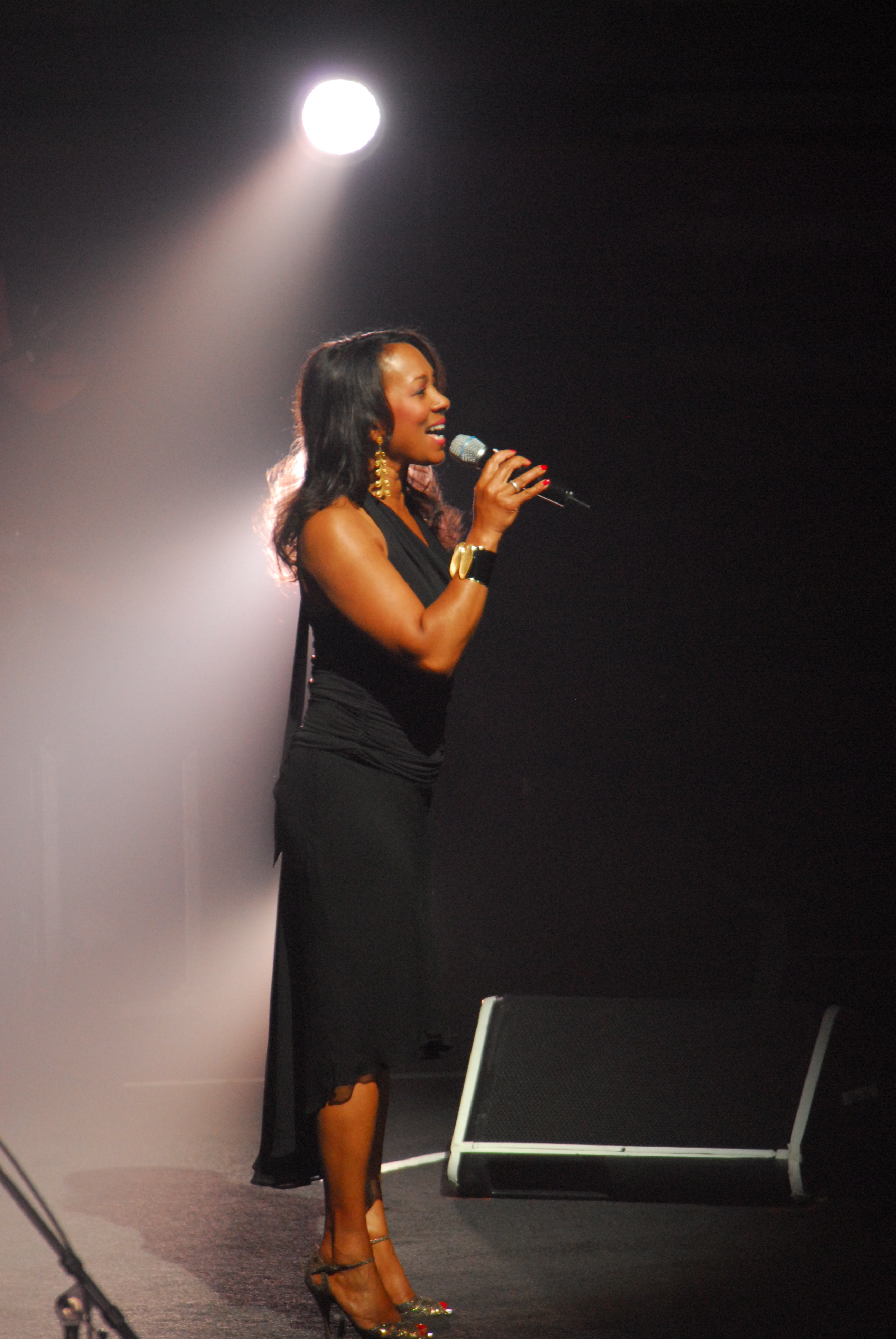 I Adrian Buss took this photograph on June 6 2007 in Ottawa and allow others to use it as per the licence. For more pictures of the same concert